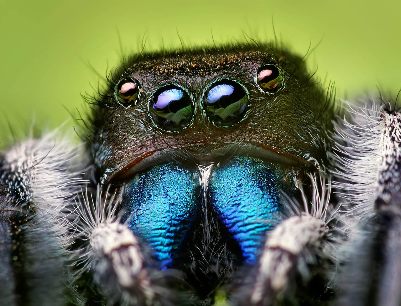 Face of an adult male Phidippus audax male jumping spider.